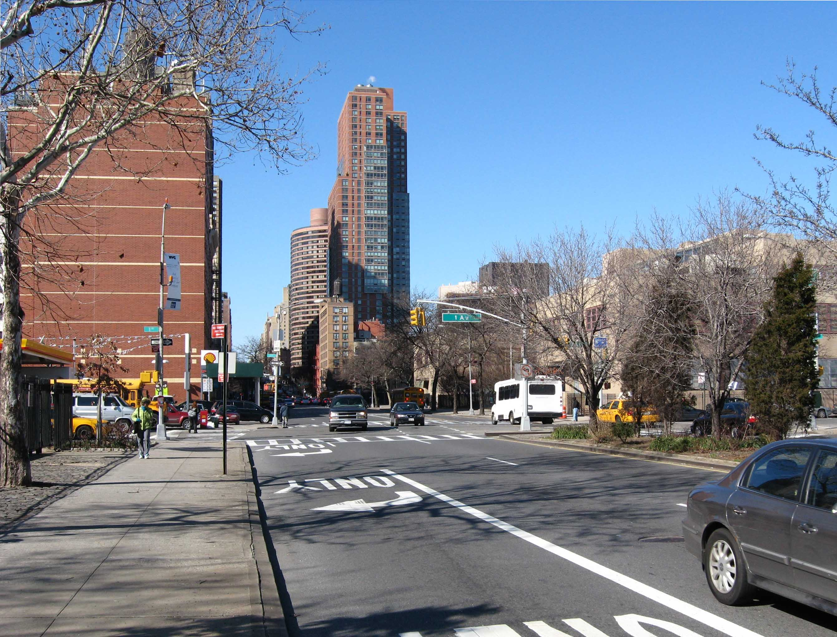 96th Street, Manhattan, seen from the east, below and southwest of the later Image:E96fdr5bbtjeh.JPG, crossing 1st Avenue in the middle of a sunny winter day